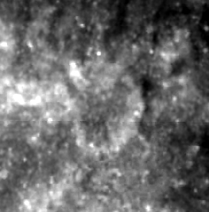 Melissa lunar crater - Clementine image